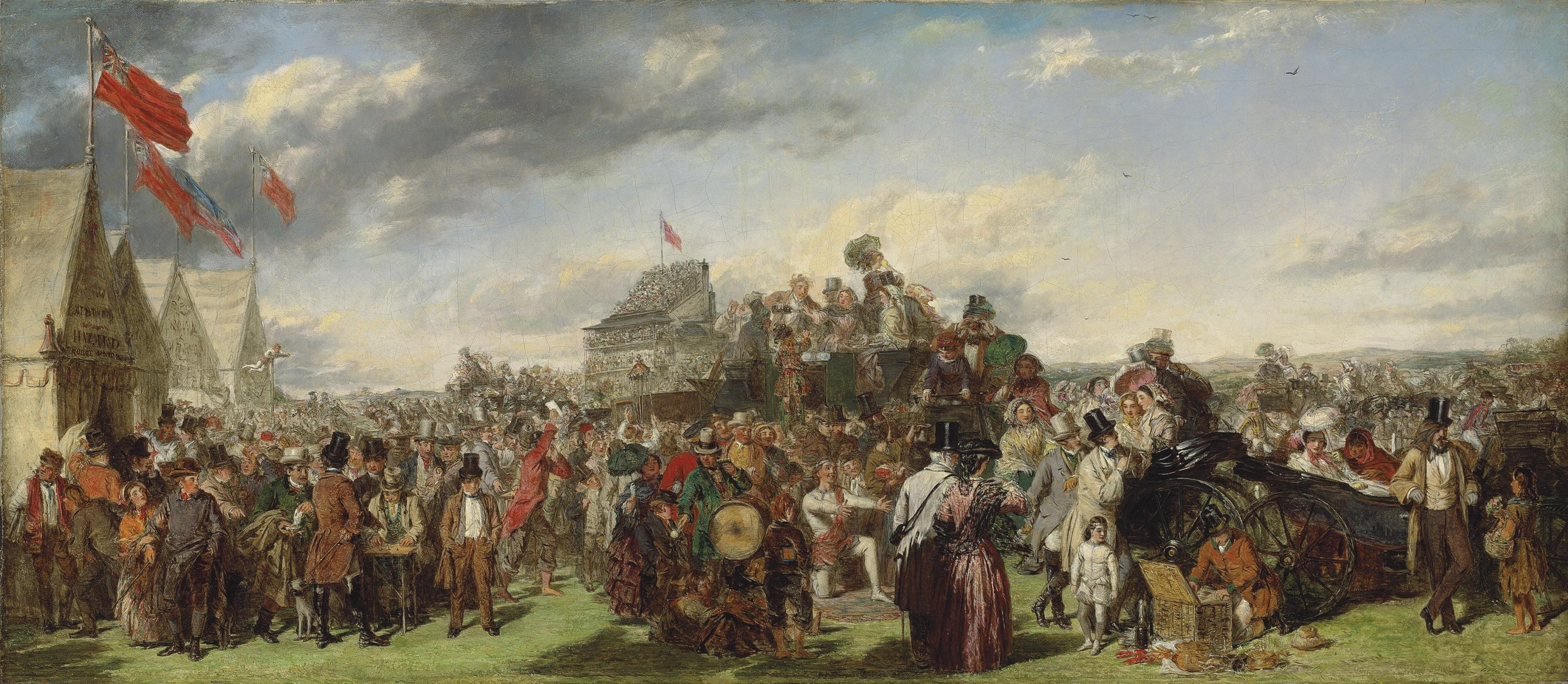 the 'first study' for the celebrated painting